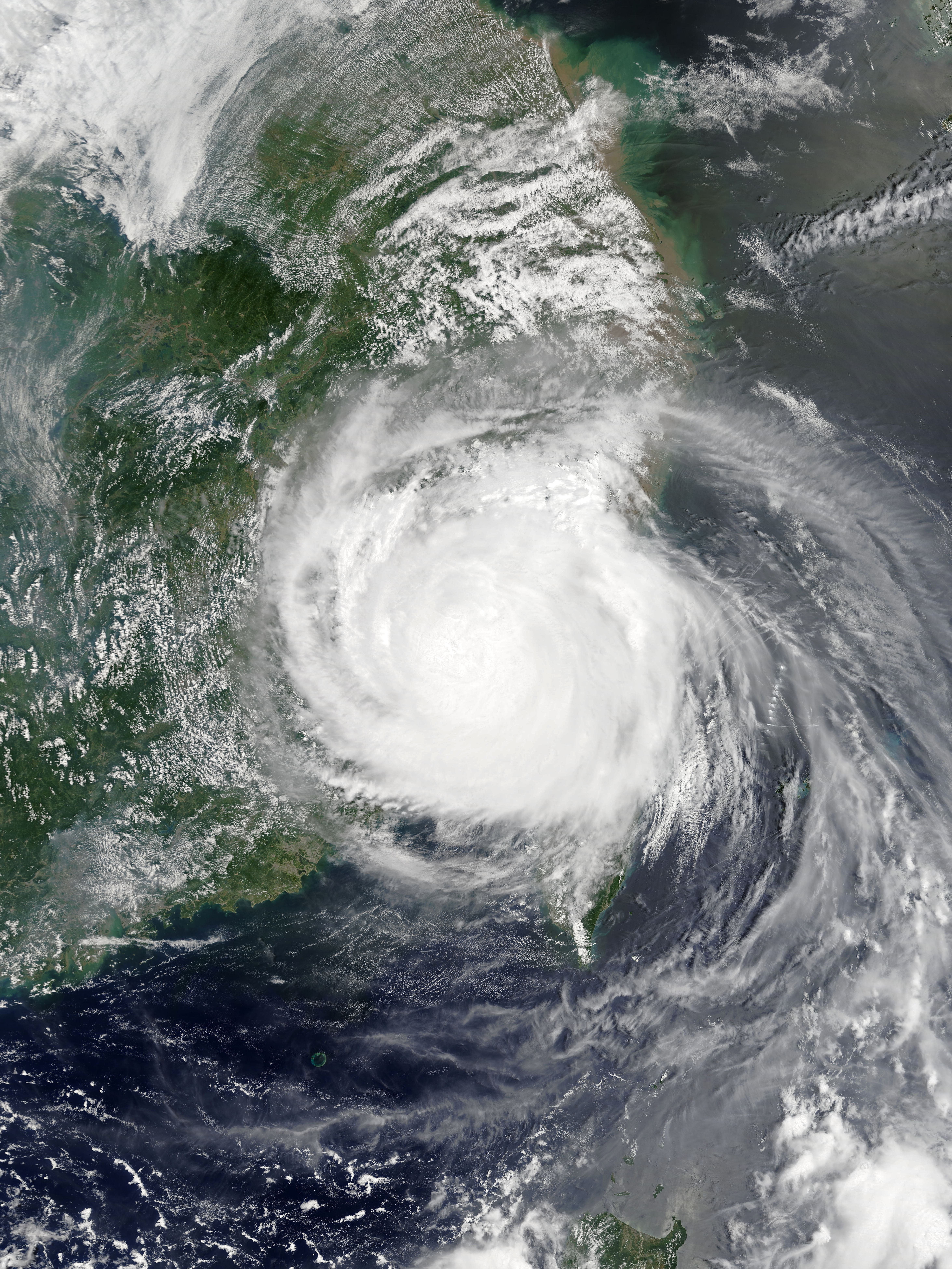 Typhoon Maria over Fujian, China on July 11, 2018.